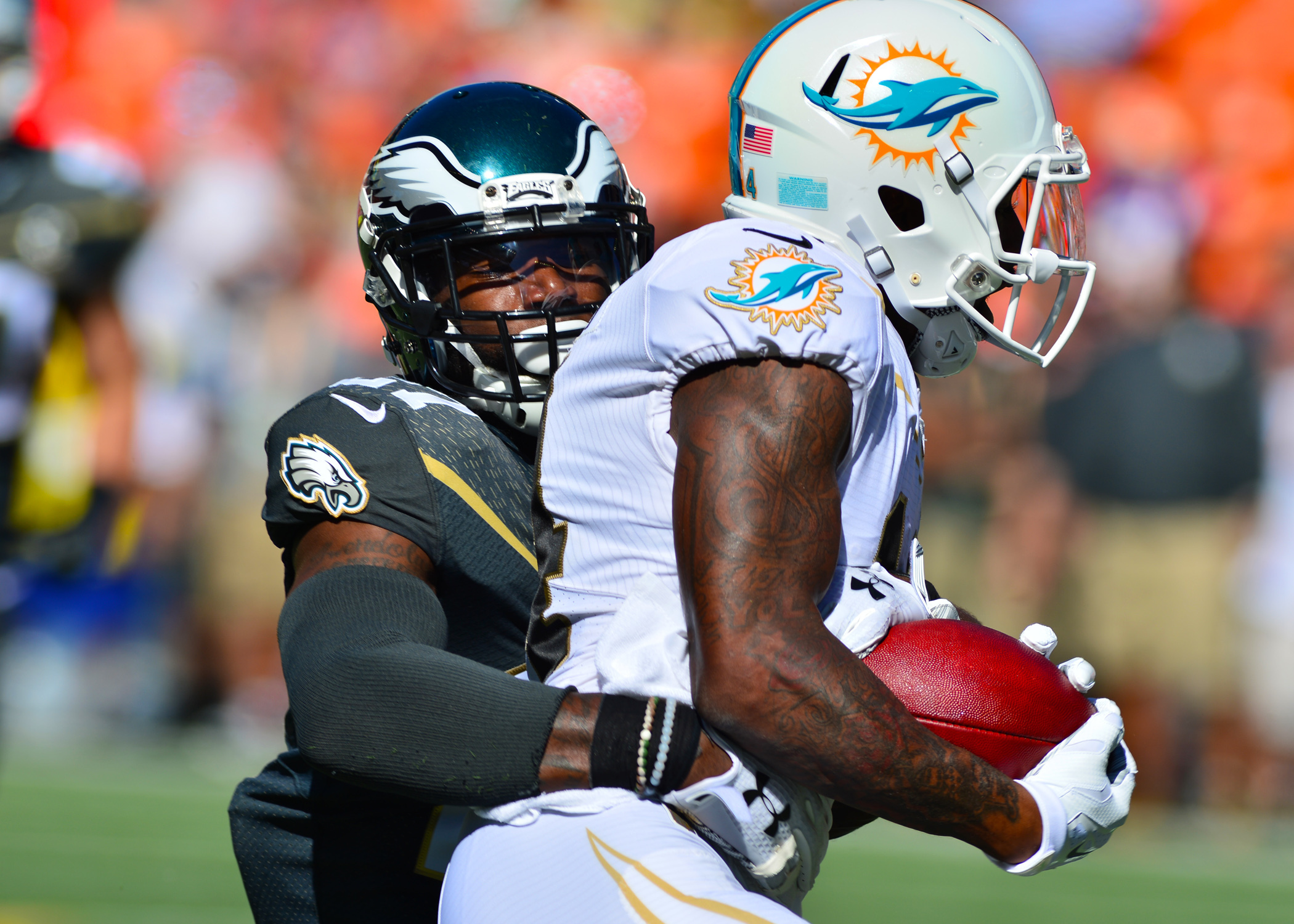 Malcolm Jenkins, Team Irvin free safety, tackles Jarvis Landry, Team Rice wide receiver, during the 2016 Pro Bowl at Aloha Stadium, Hawaii, Jan. 31, 2016. Service members from all branches of the military volunteered during the Pro Bowl in a range of jobs from stage assembly to parking. (U.S. Air Force photo by Tech. Sgt. Aaron Oelrich/Released)